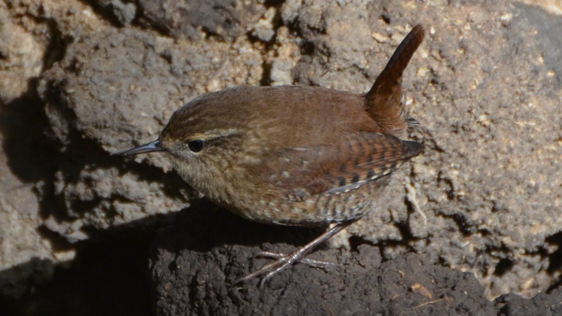 Tower Grove Park in St. Louis Missouri on 10/14/12